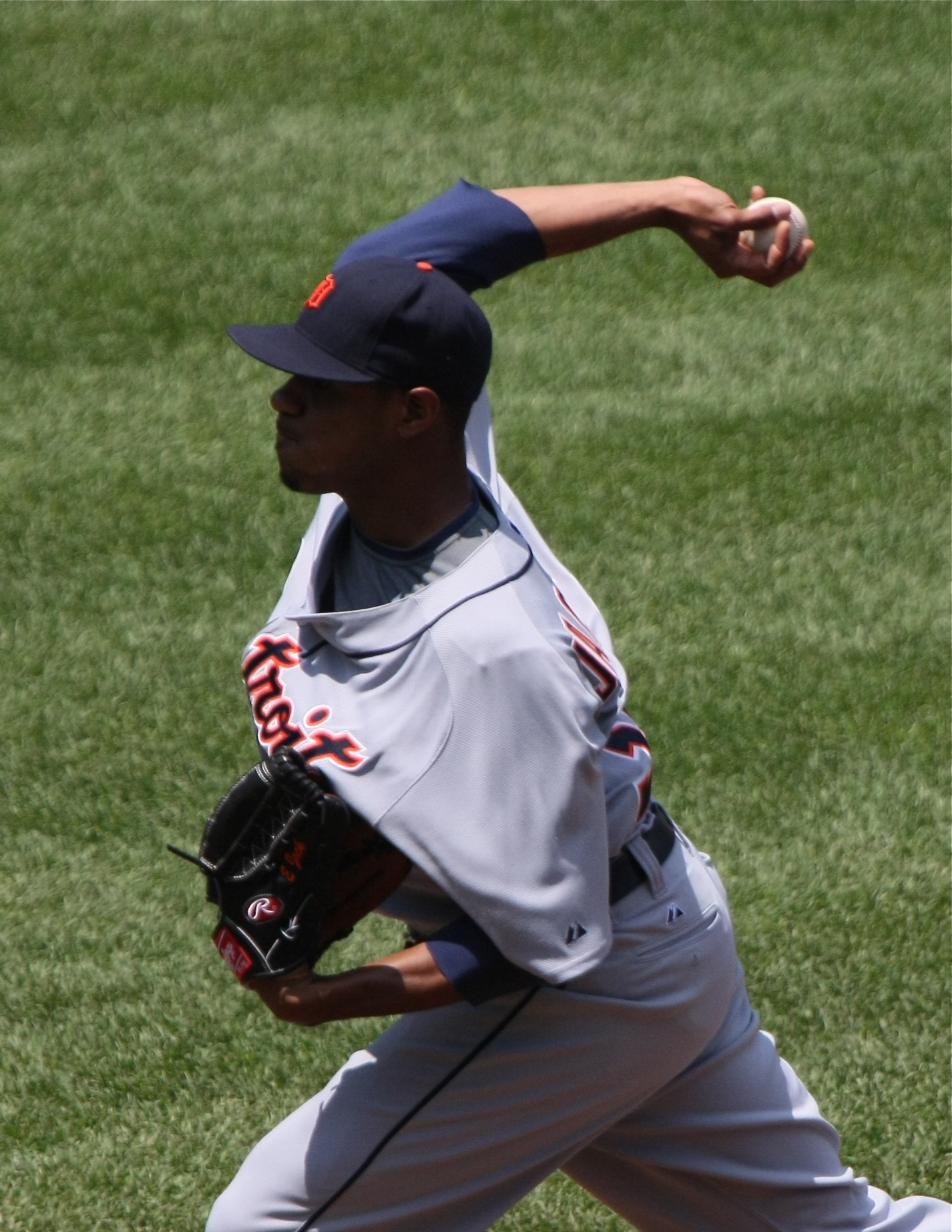 Edwin Jackson